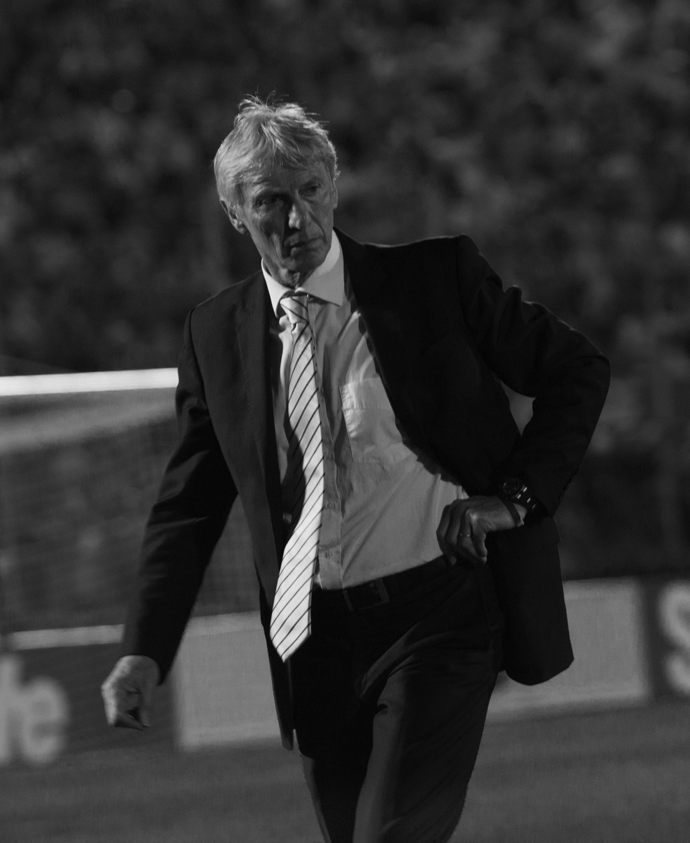 José Néstor Pekerman at a FIFA world cup qualification game between Uruguay vs Colombia, at the Centenario stadium in Montevideo, Uruguay in September 2013. Uruguay won 2-0.